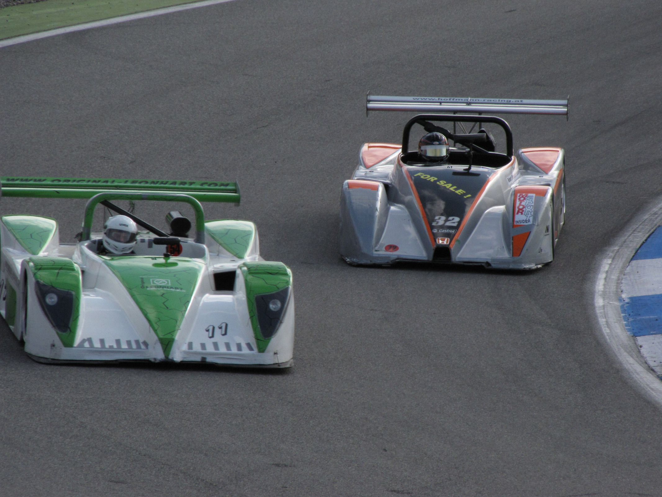 Andreas Fiedler in a BMW powered RPC LM left and Robert Myrsar in a Honda powered PRC CN2l right at Rheintal race 2009